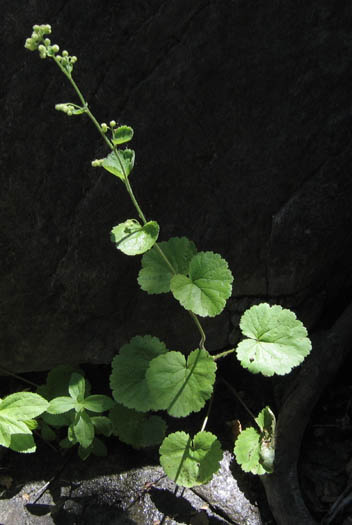 Boykinia rotundifolia — Santa Monica Mountains National Recreation Area, California. Taken at Point Mugu State Park, on the Waterfall Trail. NPS photo, no copyright.